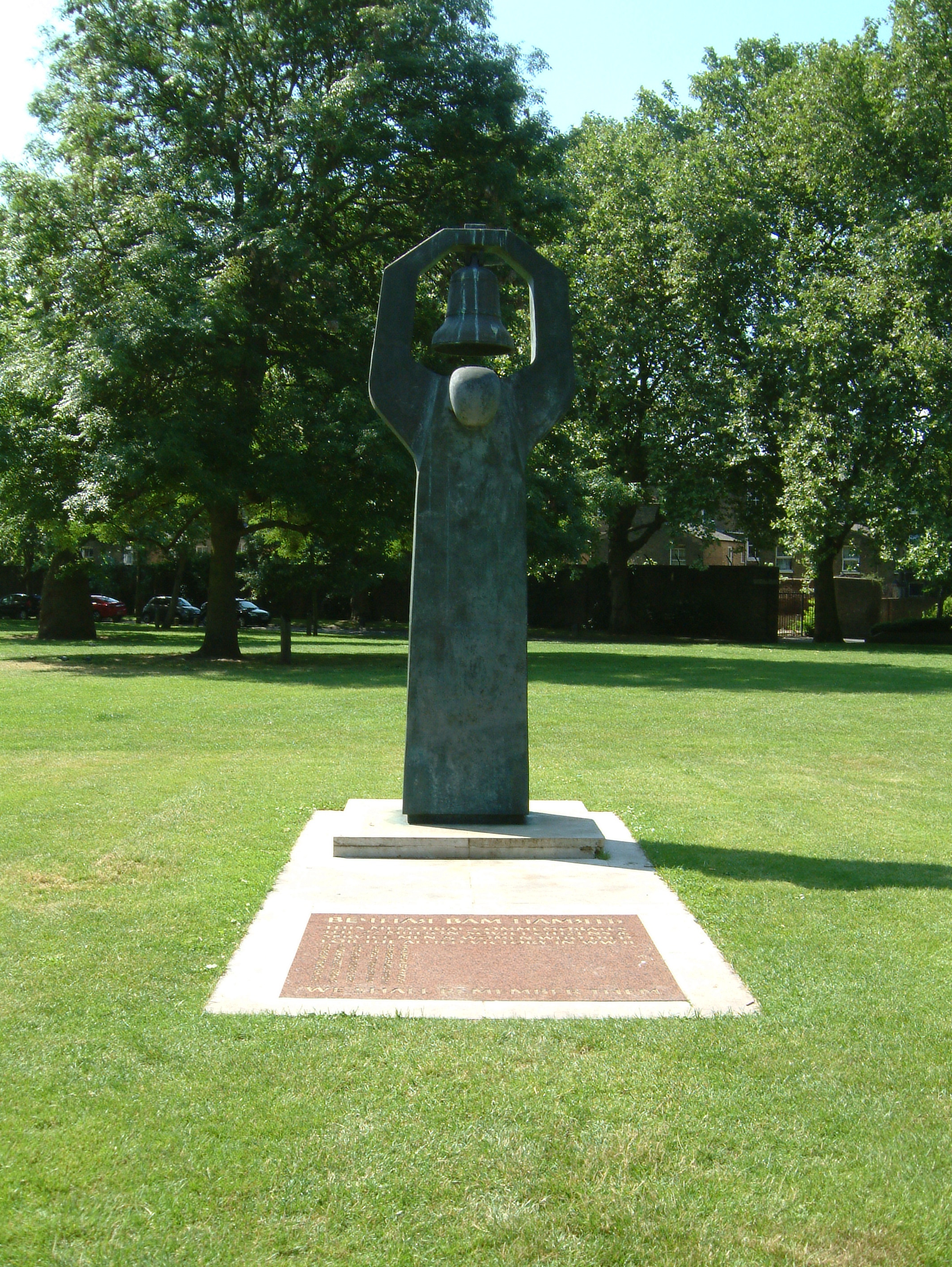 Soviet War Memorial, Geraldine Mary Harnsworth Park, Lambeth, London, UK